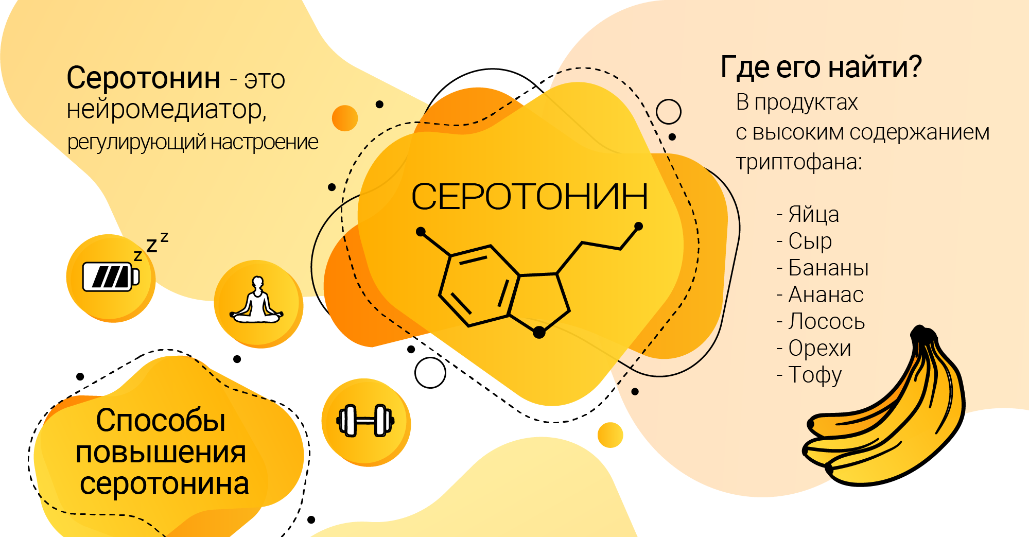 Serotonin